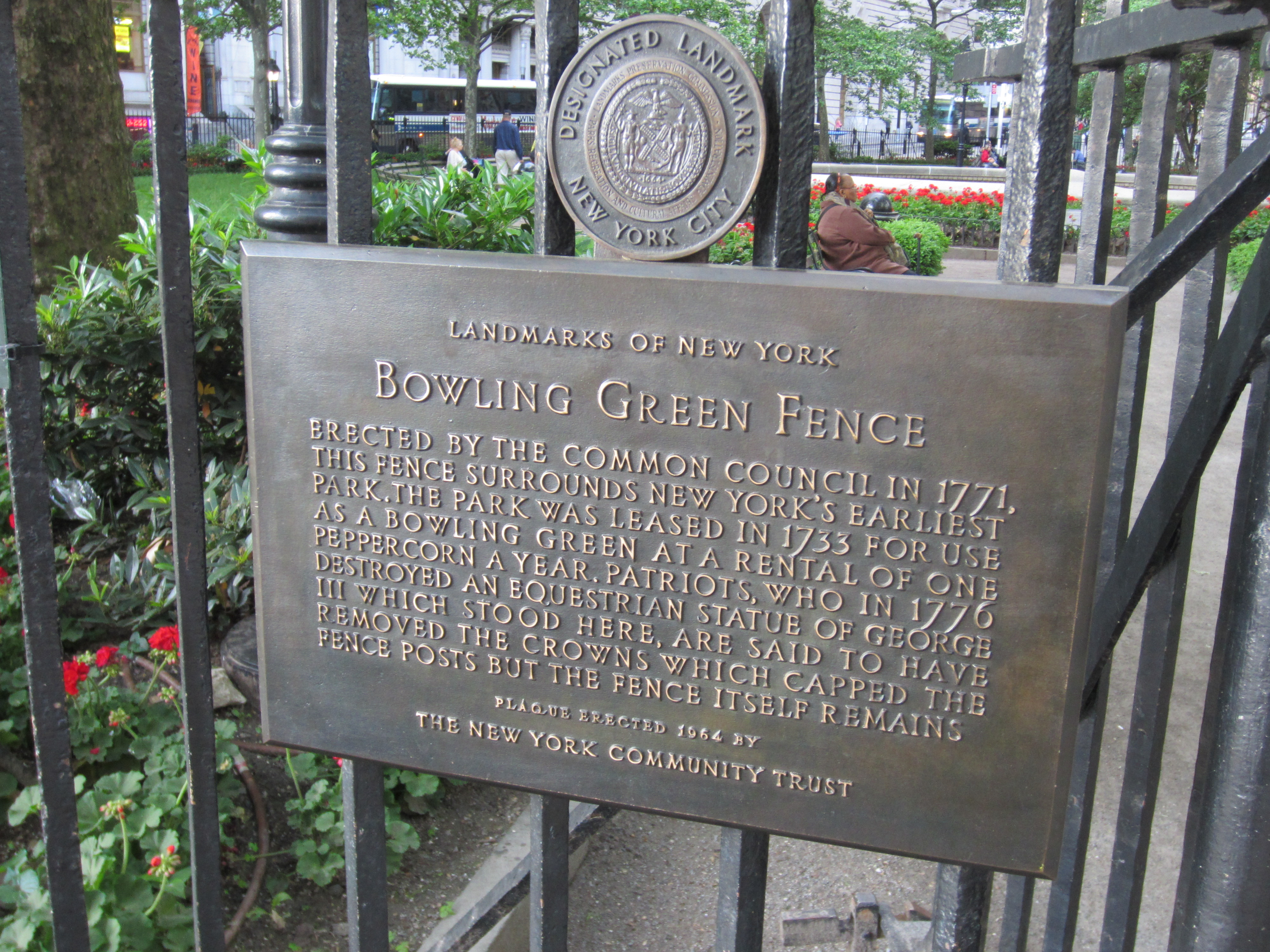 New York City (May 2014)